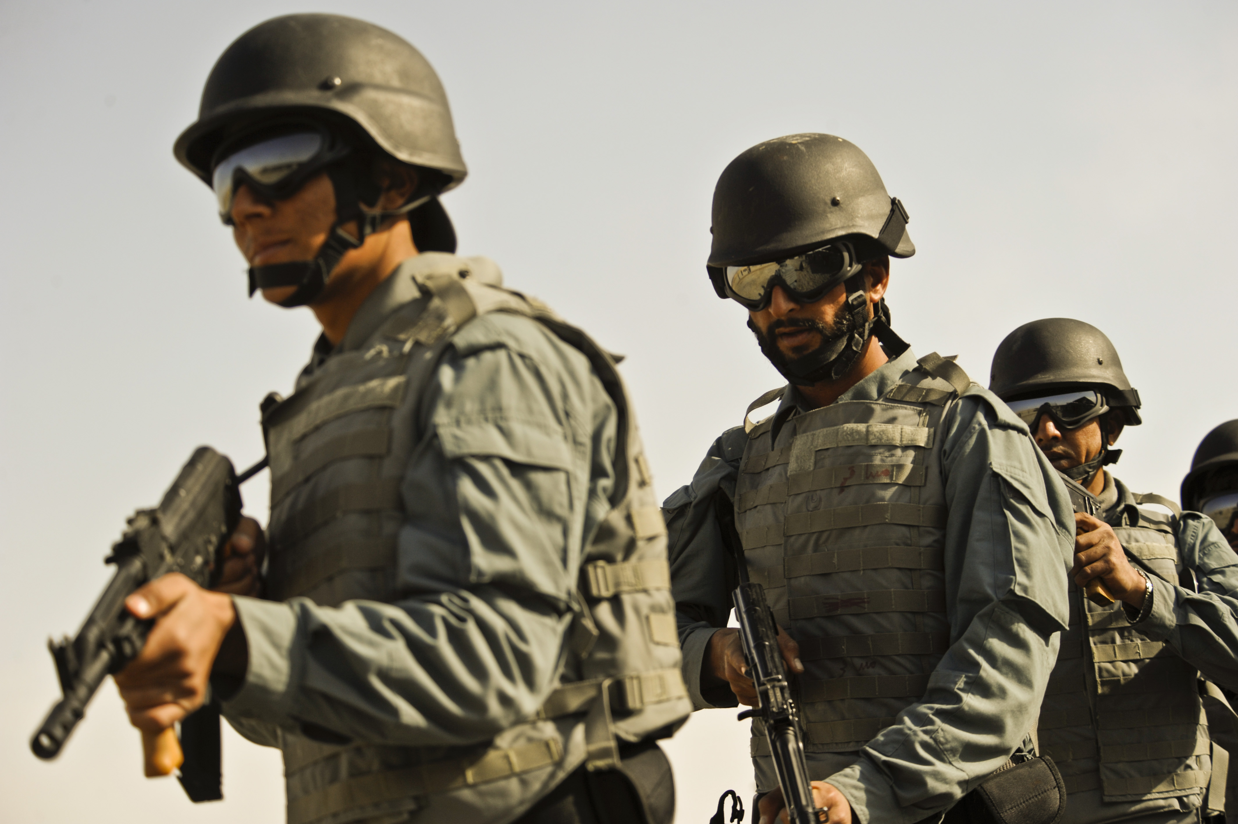 Afghan national policemen demonstrate their tactical maneuvers at the Helmand Police Training Centre, Lashkar Gah, Helmand province, Afghanistan, Jan. 28, 2010. (U.S. Air Force photo by Tech. Sgt. Efren Lopez)